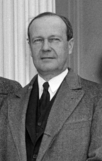 Robert J. Bulkley, US Senator from Ohio